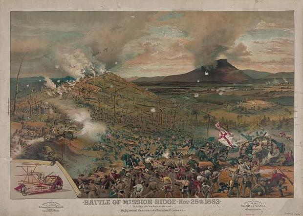 Battle of Missionary Ridge, 1863